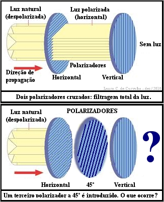 Problem of crossed polarizers.